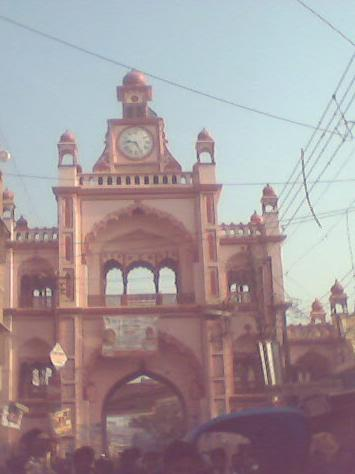 Barabanki Ghantaghar(Clock Arch). Unique due to its Arch architecture, usually Clock Houses are Clock Towers but this is a Clock Arch.